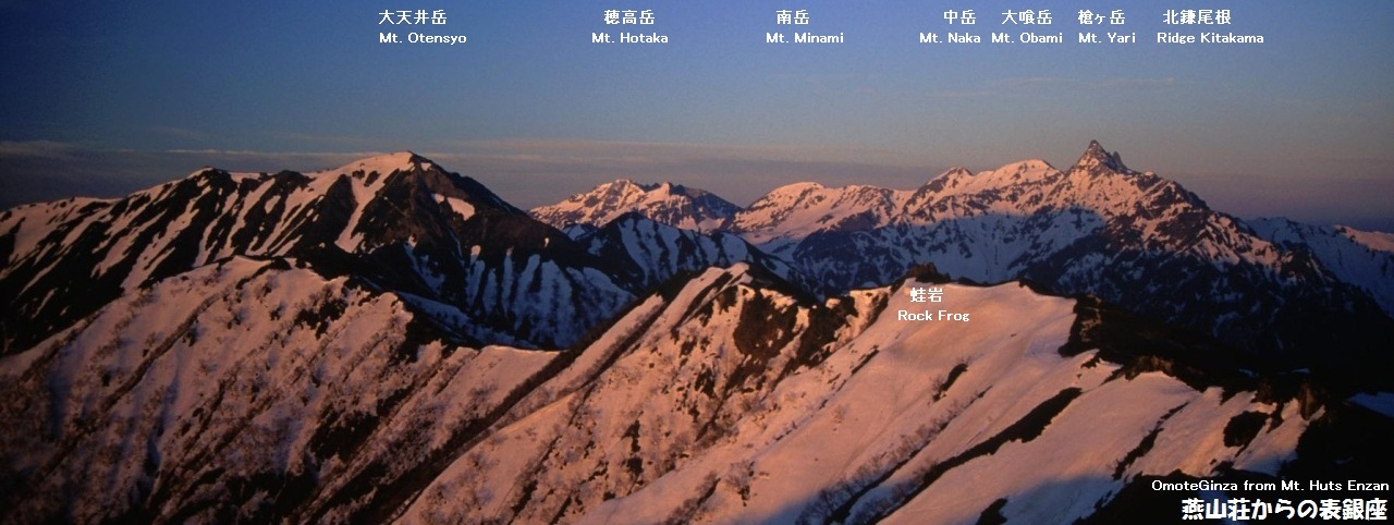 Omoteginza_from_Enzanso